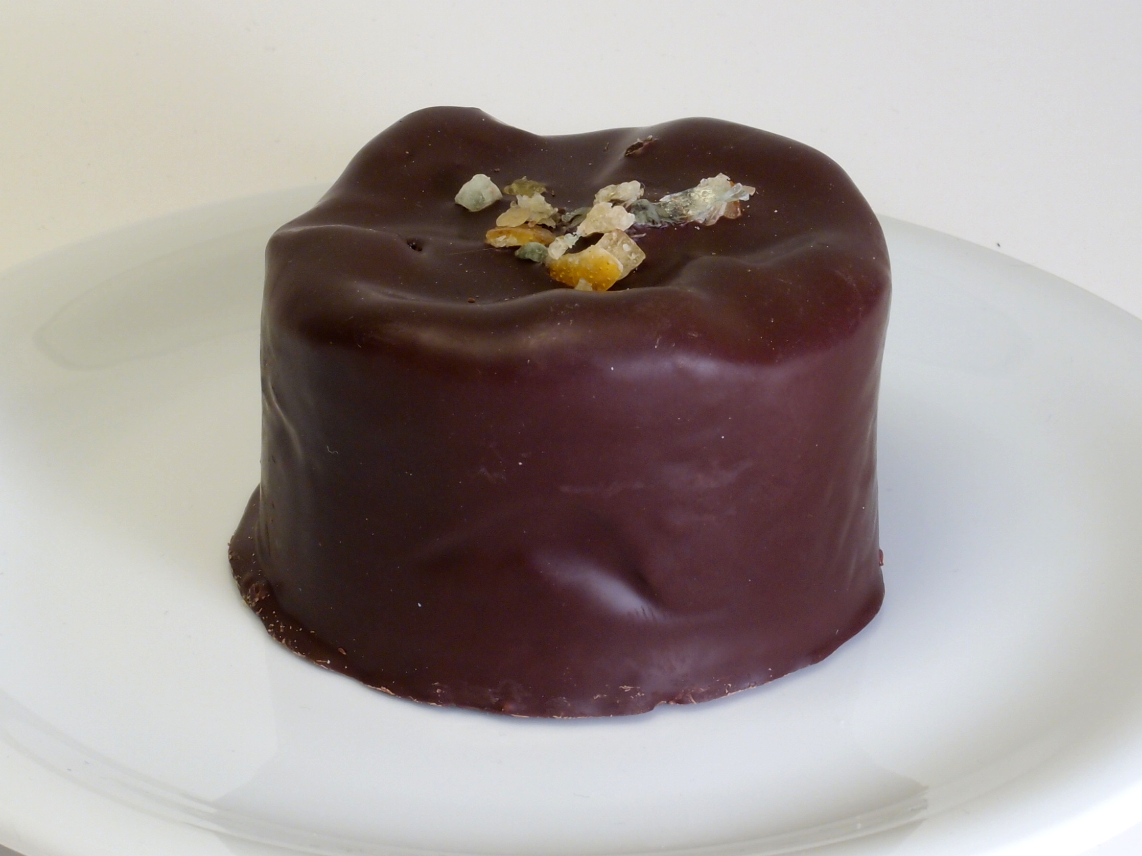 A “Liegnitz Bomb” (German: Liegnitzer Bombe), a German gingerbread confection originally from the Silesian city of Liegnitz (now Legnica, Poland). Liegnitz Bombs are high round cakes with a filling of marzipan and candied fruit. This particular specimen was manufactured by a Hamburg patisserie. It measures 45 mm tall and 75 mm in diameter.